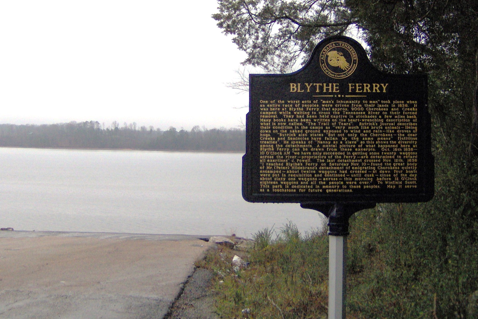 The site of Blythe Ferry at the Hiwassee Wildlife Refuge in Meigs County, Tennessee, located in the southeastern United States. The ferry, situated near the confluence of the Hiwassee River and Tennessee River, attained notoriety in 1838 when it became a departure point for the Trail of Tears, in which thousands of Cherokees were forced to move west.